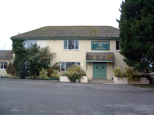 The Ferryman Inn (Bablock Hythe) The pub is located in a stunning position on the banks of the River Thames, just to the North-East of Northmoor.